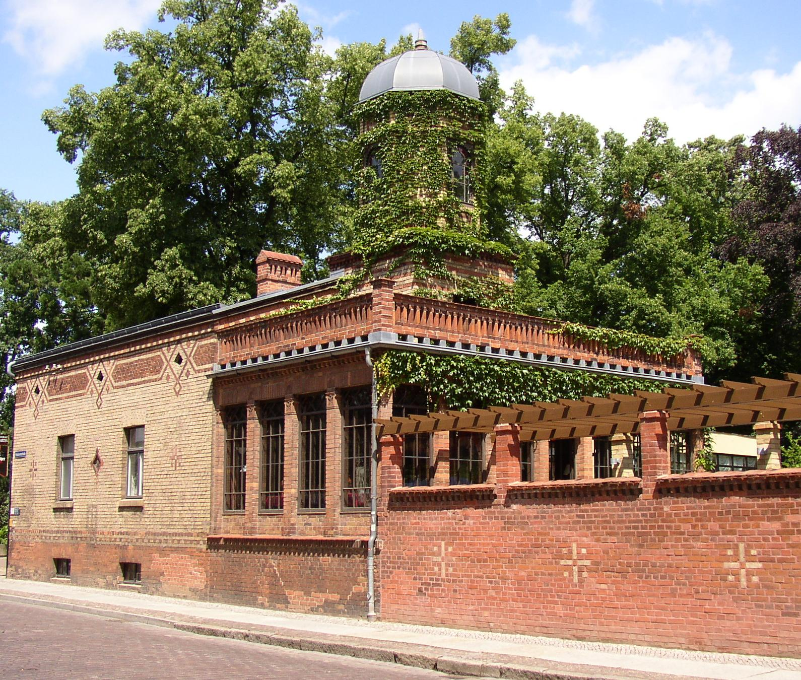 Villa in the temple garden in Neuruppin in Brandenburg, Germany